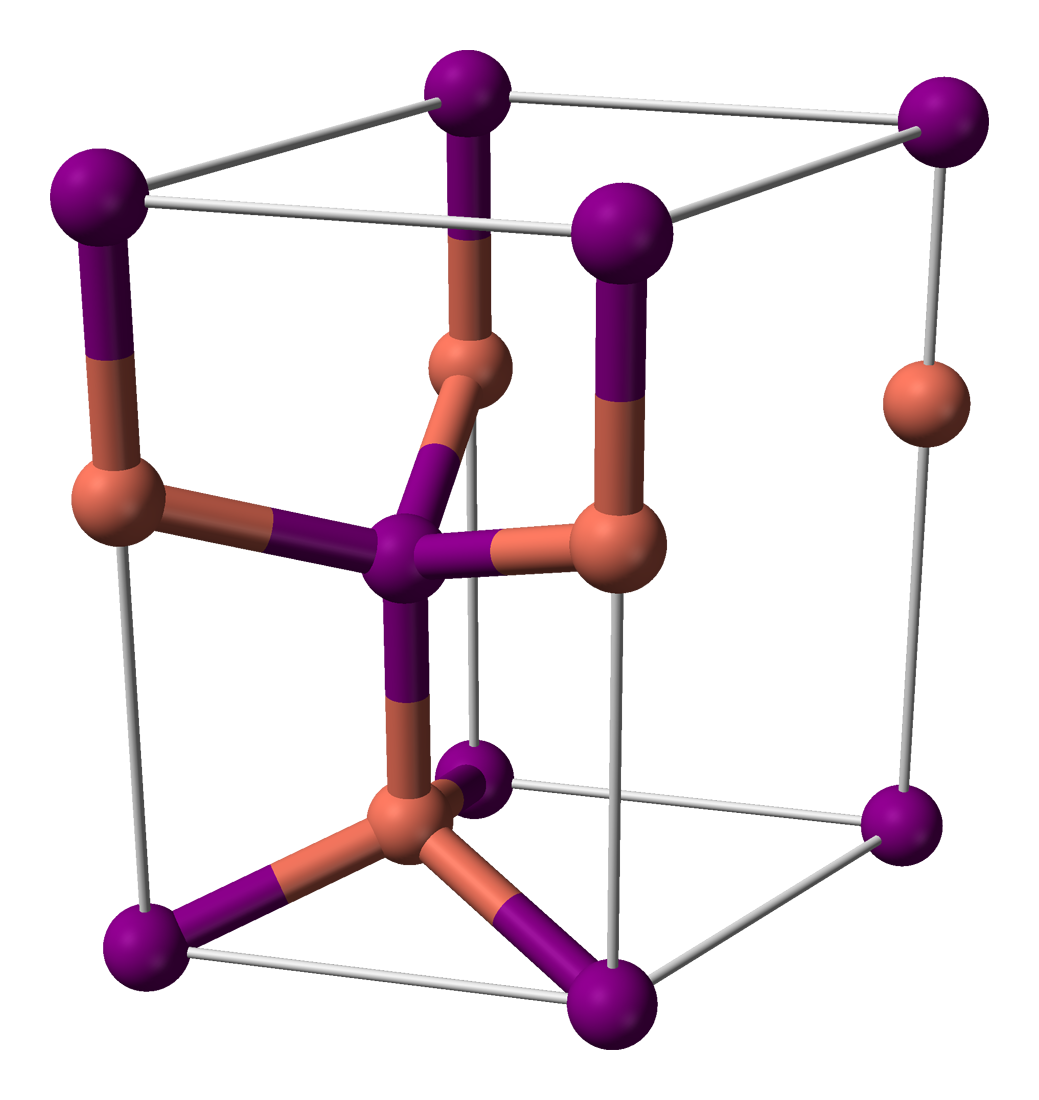 Ball-and-stick model of the unit cell of the beta polymorph of copper(I) iodide, β-CuI.